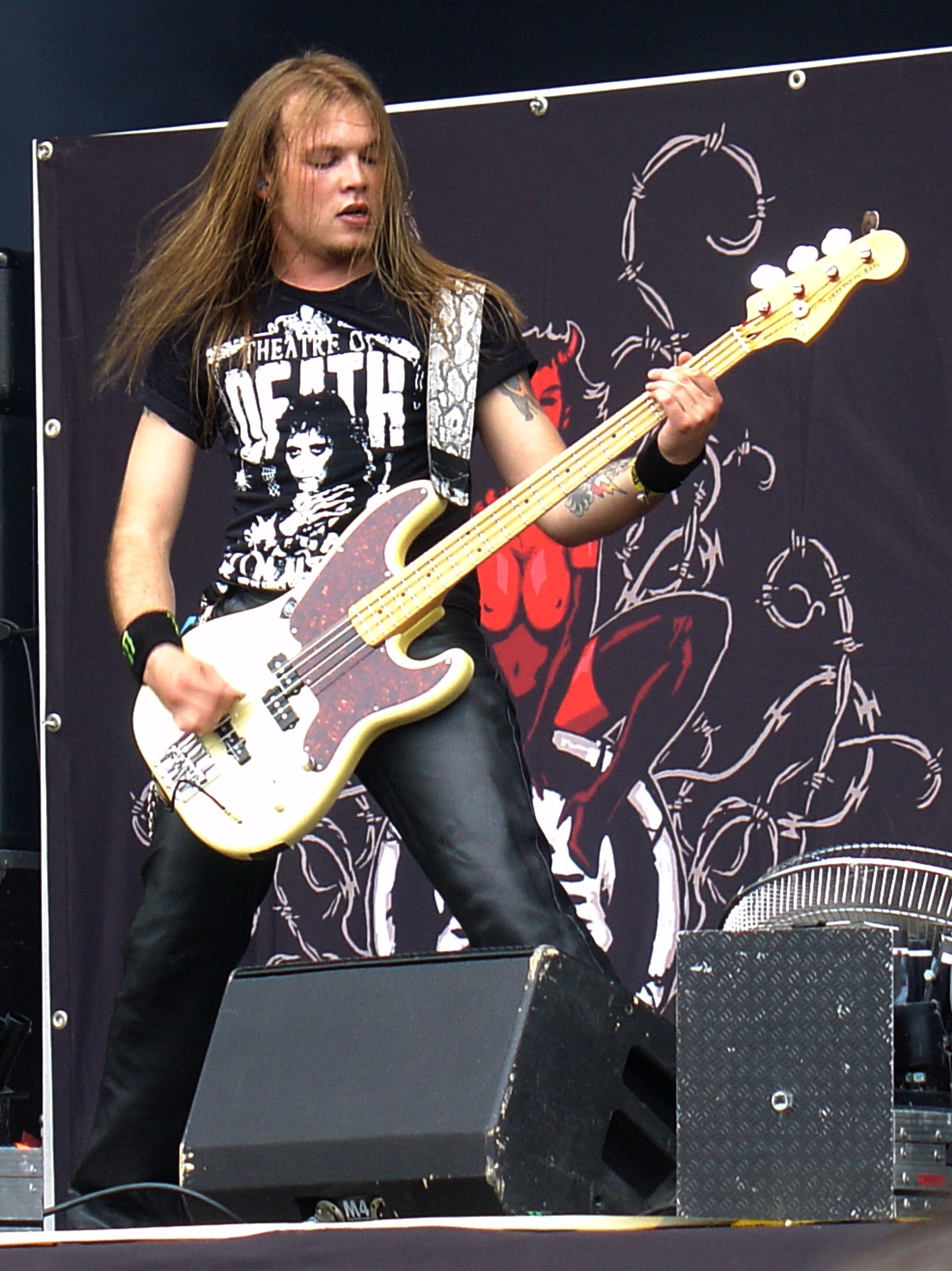 Pekka Johansson at Tuska Open Air Metal Festival 2012